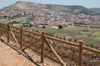 Parque del Terri